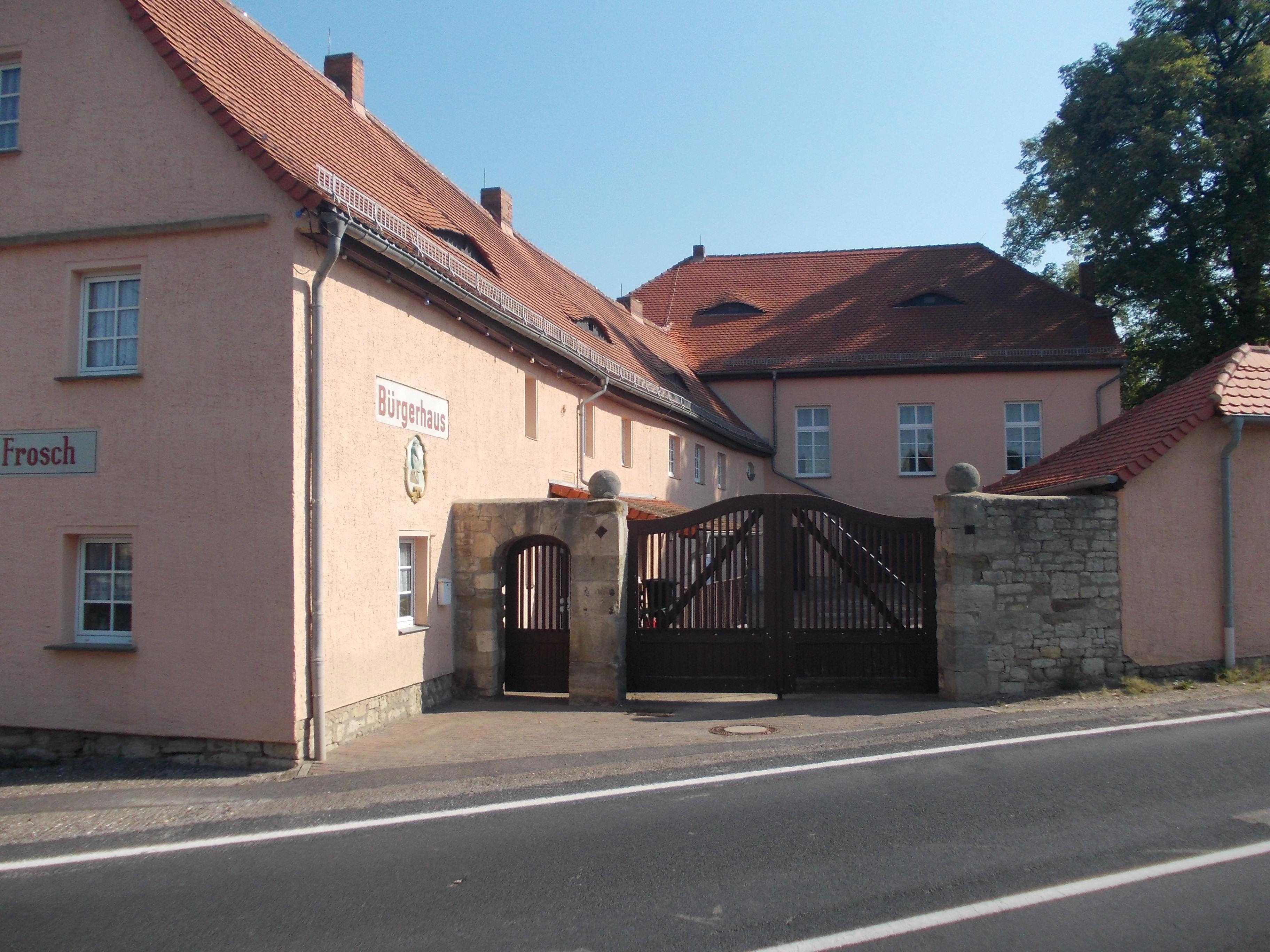 Former The Cold Frog Inn in Burgholzhausen (Eckartsberga, district: Burgenlandkreis, Saxony-Anhalt)